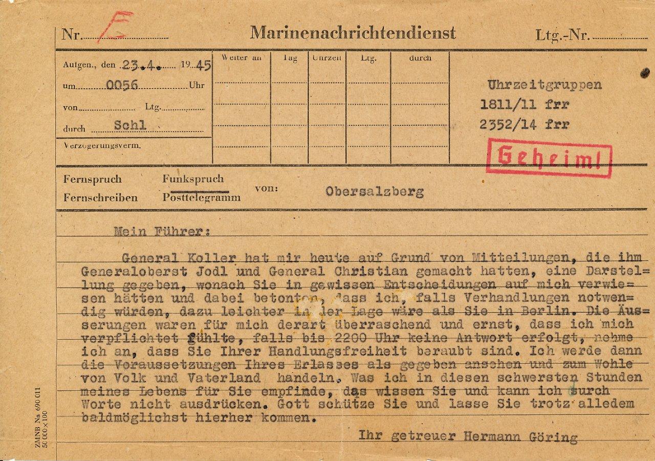 This carbon copy of the telegram sent by Hermann Göring to Adolf Hitler on 23 April 1945 was made for Martin Bormann. In 2015, it was auctioned by Alexander Historical Auctions.